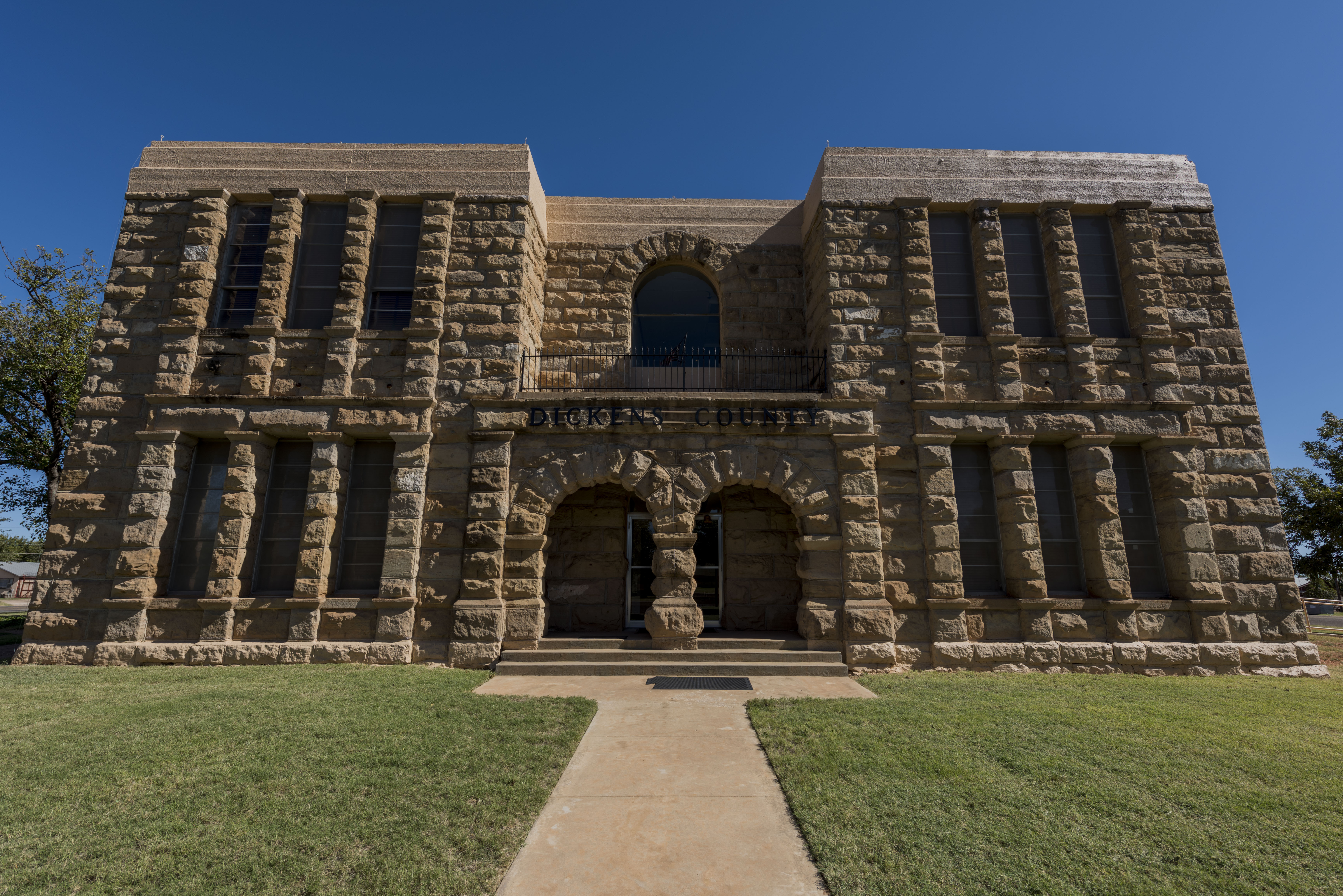 Photograph of the Dickens County, Texas Courthouse taken in October 2019.